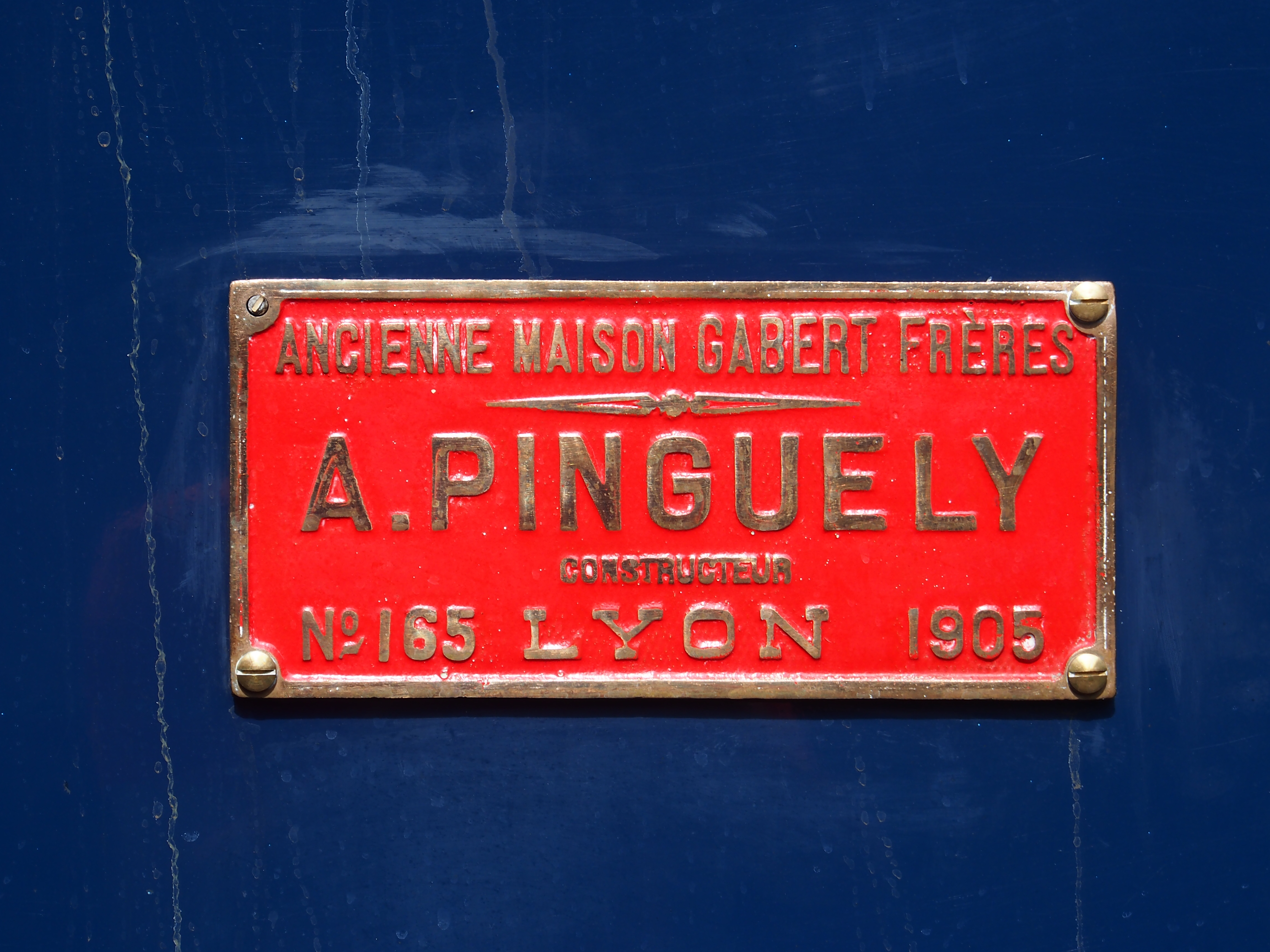 Photographed in Le Crotoy in France.